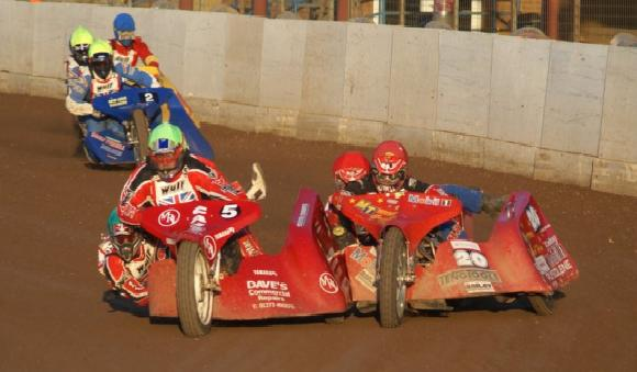 Banging fairings